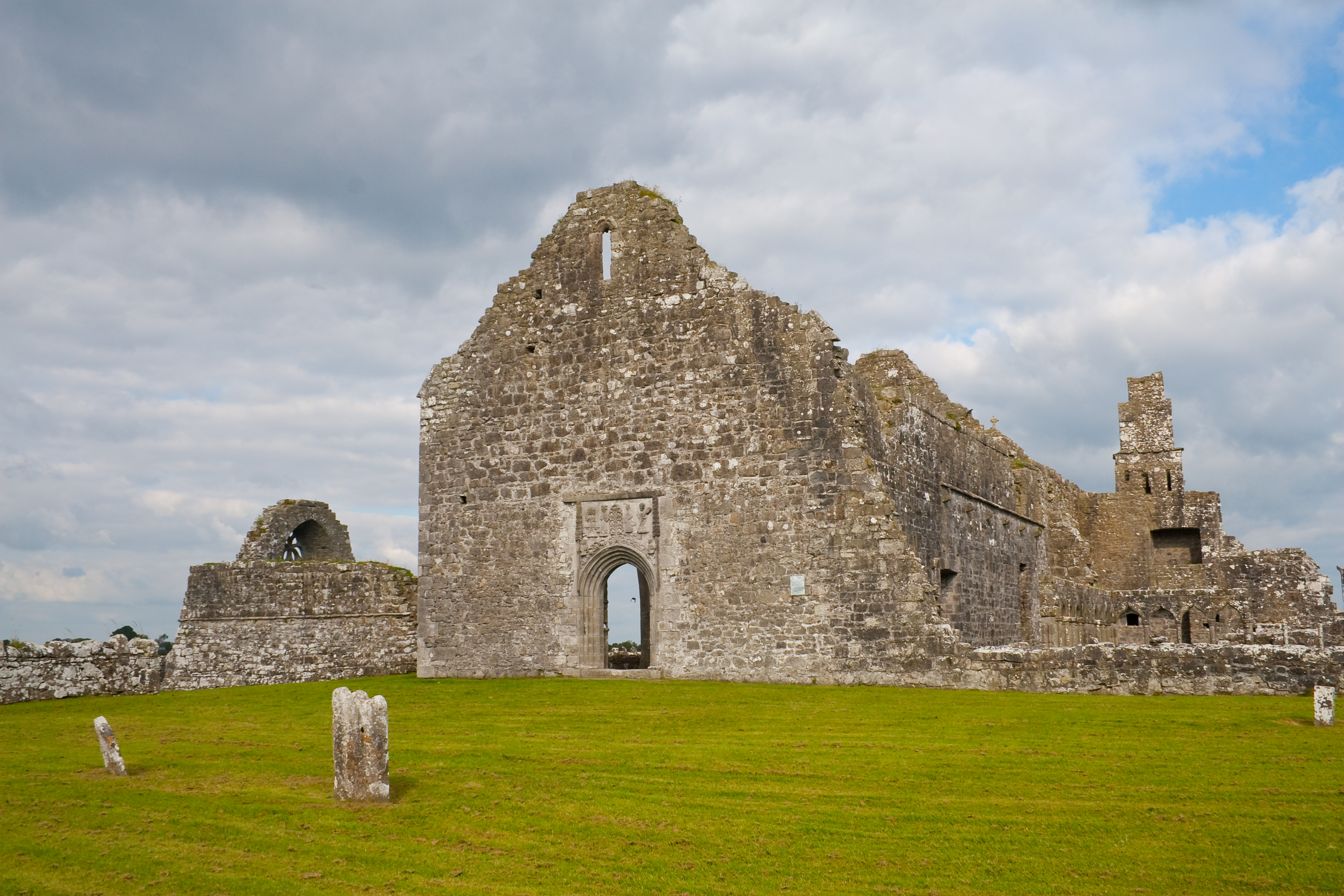 Clontuskert Priory, County Galway, Ireland West range of Clontuskert Priory.